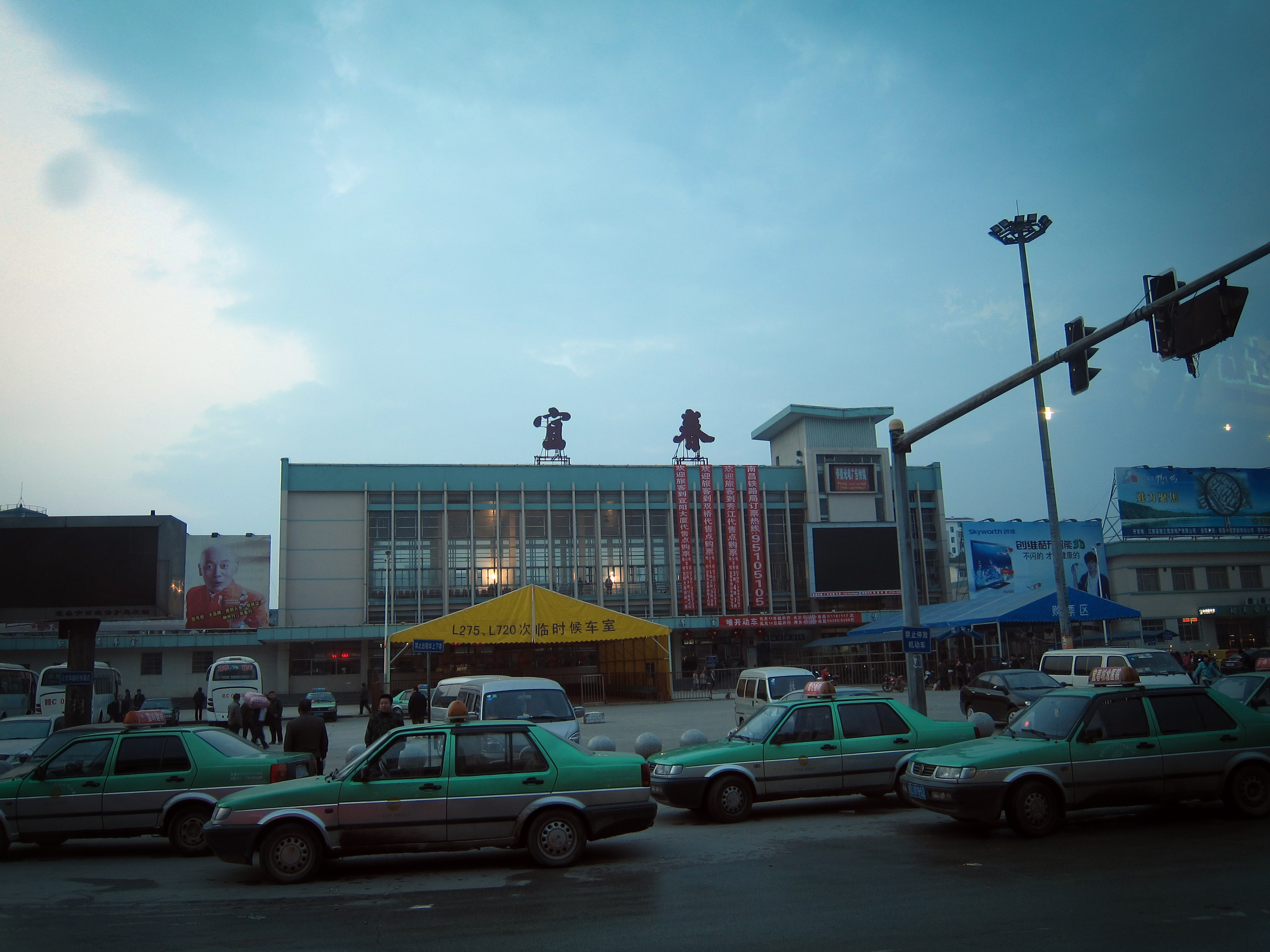 Yichun railway station